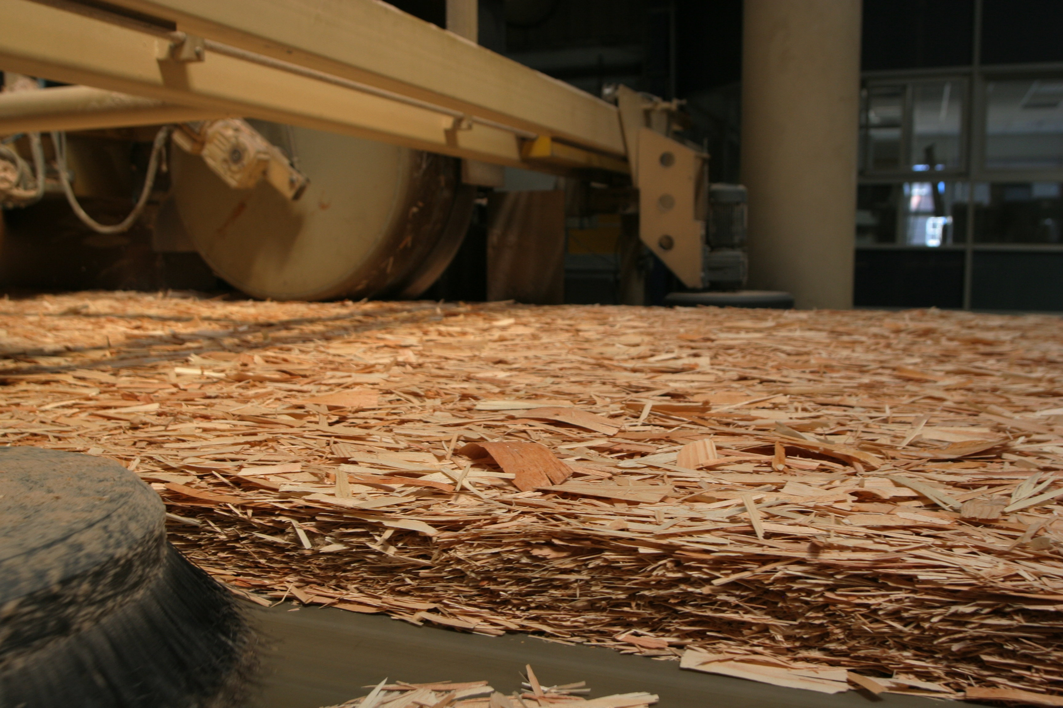 Production of OSB boards.